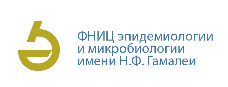 Logo of Gamaleya Research Institute of Epidemiology and Microbiology